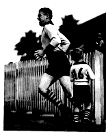 An image of Laurie Nash in 1945 This image shows a photograph of Laurie Nash, taken in 1945. Under Australian law, all photographs taken in Australia before 1955 are in the public domain. This image is in the public domain under both Australian copyright law and US copyright law. Accessed from The Australian game of football : since 1858 / [editor, Geoff Slattery].